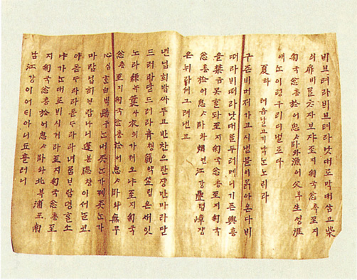 The book, Gosanyugo written by Yun Seondo (1587 - 1671)